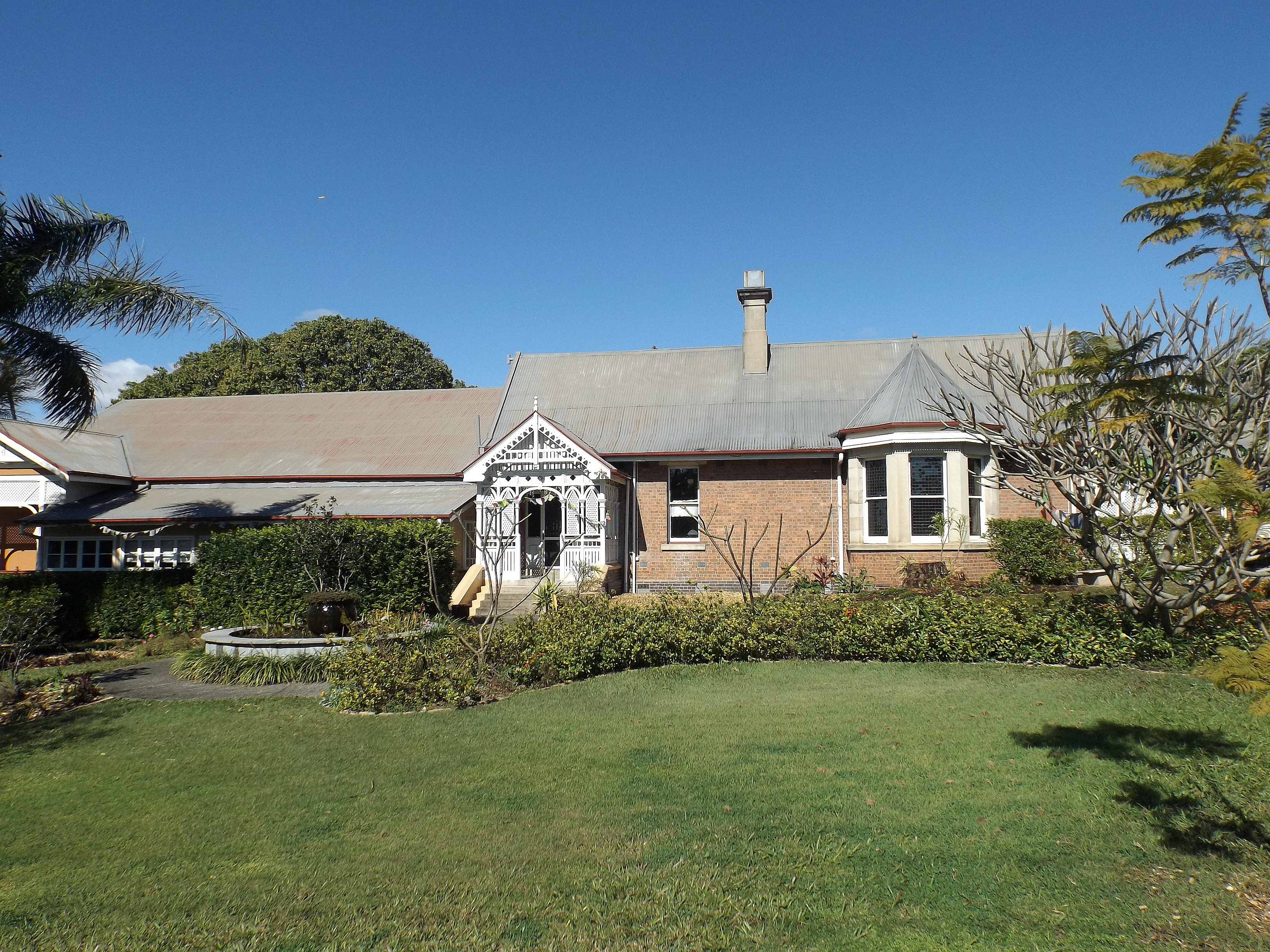 Photo of west end of Rosemount Hospital and garden at Windsor, Brisbane, Queensland, Australia.